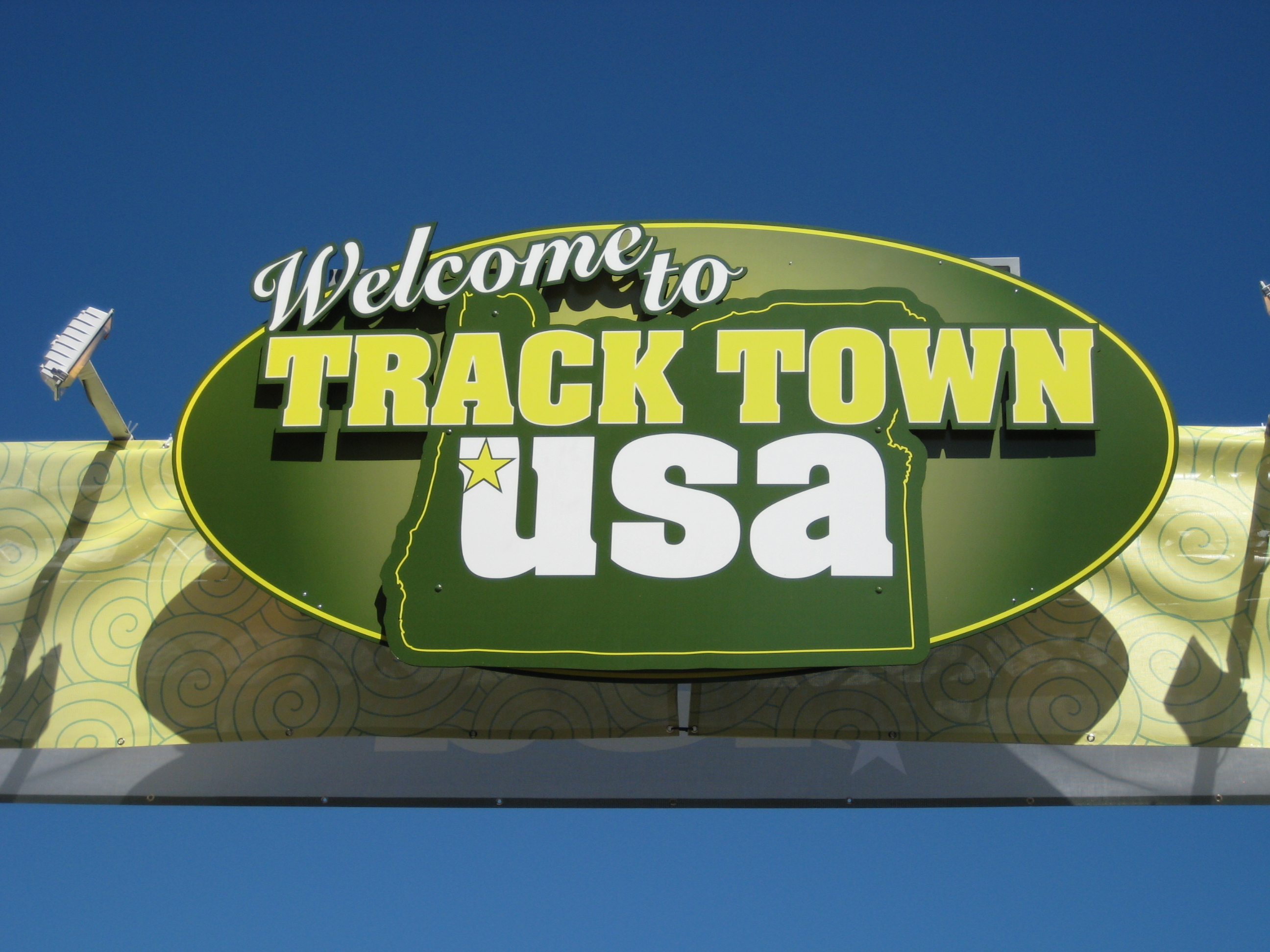 Track Town, USA sign in Eugene, Oregon